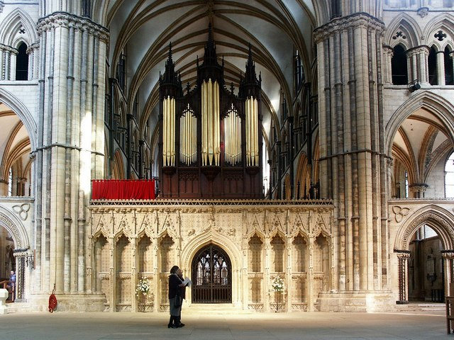 Interior of the Cathedral, Lincoln Close-up of the pulpitum screen.